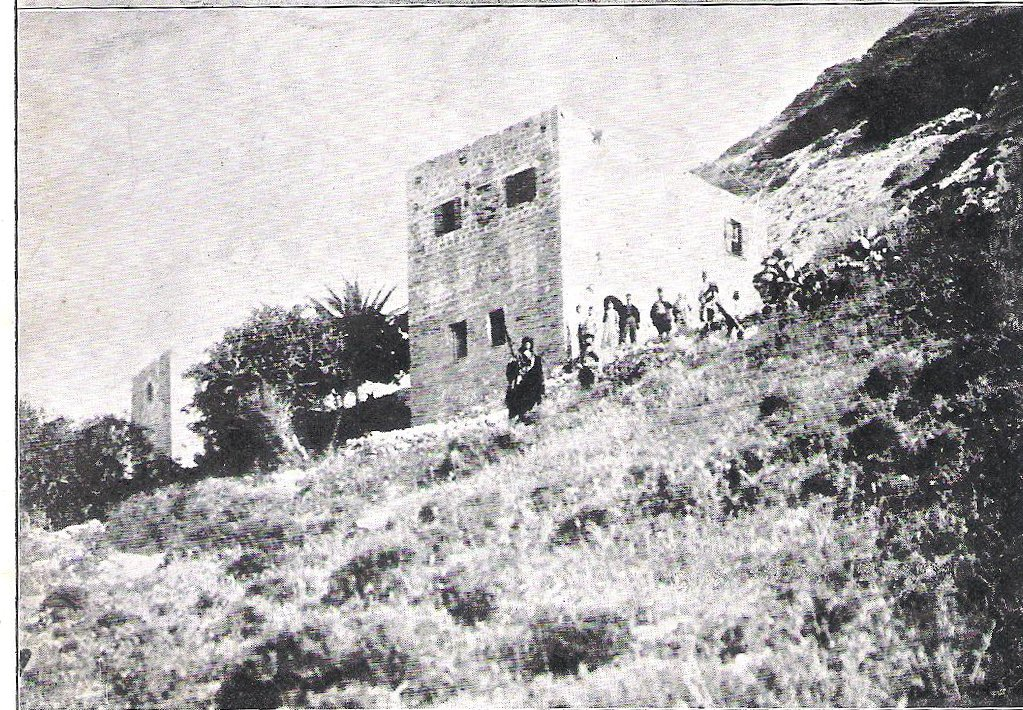 Elijah cave, Israel, Haifa.